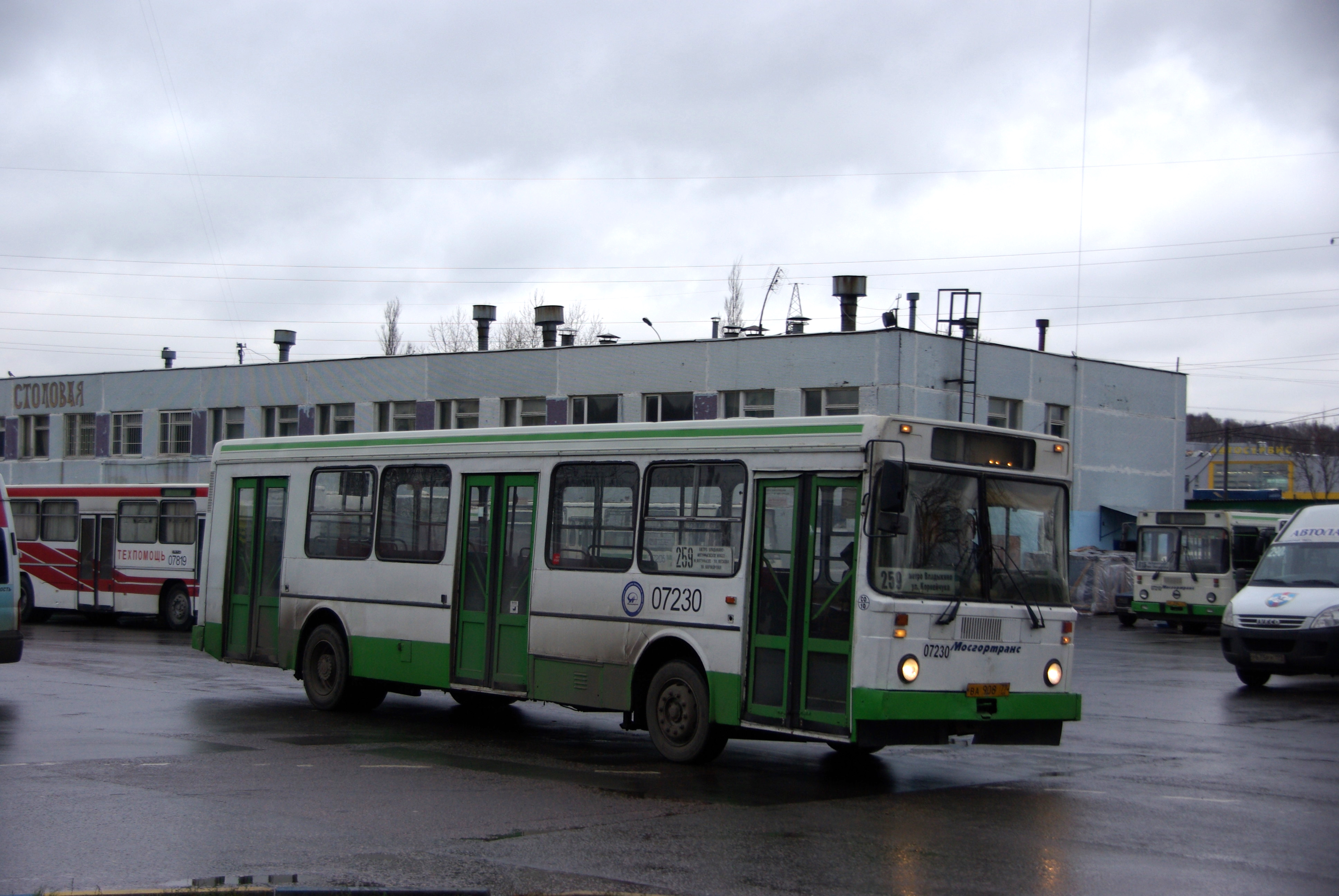 Moscow bus ЯАЗ-5267 07230_20101113_0638